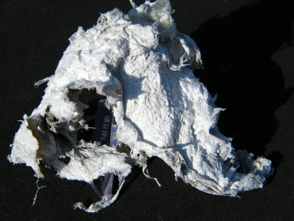 Palygorskite, Calcite (Dimensions: rolled up, 2" x 2", unrolled, 4" x 2") Locality: Metaline Falls, Metaline District, Pend Oreille Co., Washington, USA Original description: It's not often that you can roll up a mineral specimen. This flexible mat of palygorskite from Oregon is dramatically draped over a plastic stand, and if you look carefully, you can see some clear calcite crystals (about 1/4") enwrapped in the palygorskite.